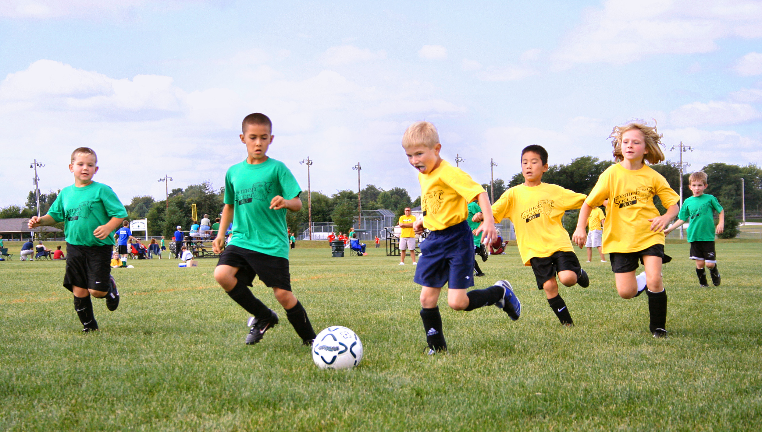 Youth soccer in small town USA. Photo shot by Derek Jensen (Tysto), 2005-September-17